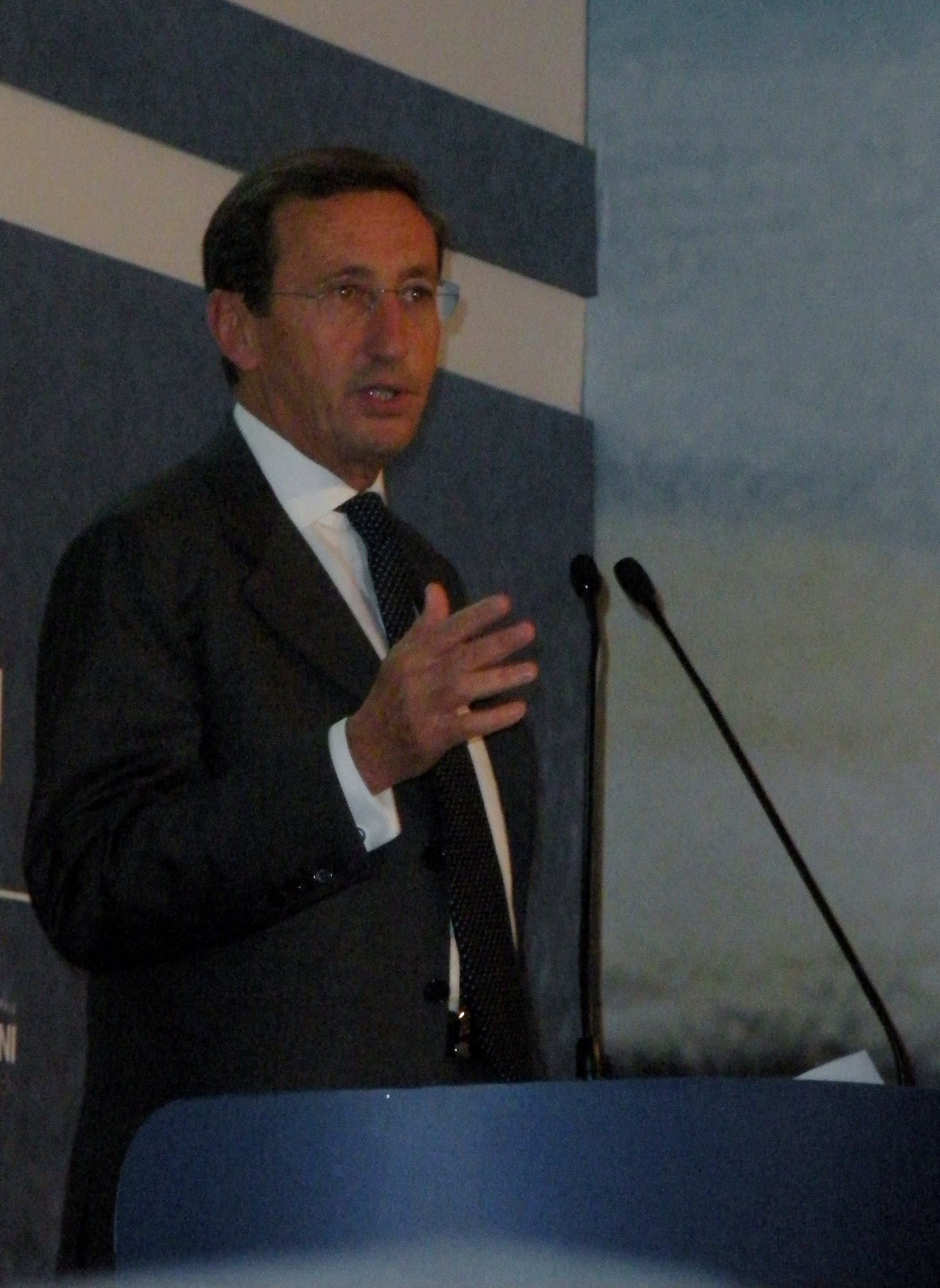 Gianfranco Fini, italian politician.